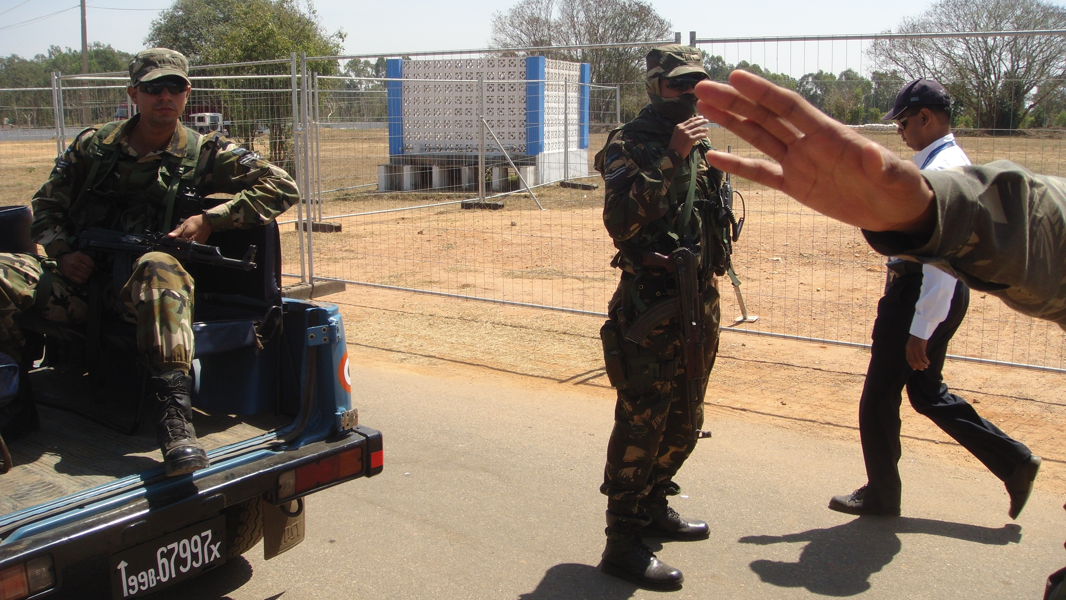 IAF's own elite commandos at Aero India 2011, Yelahanka Air Force Base Bangalore.